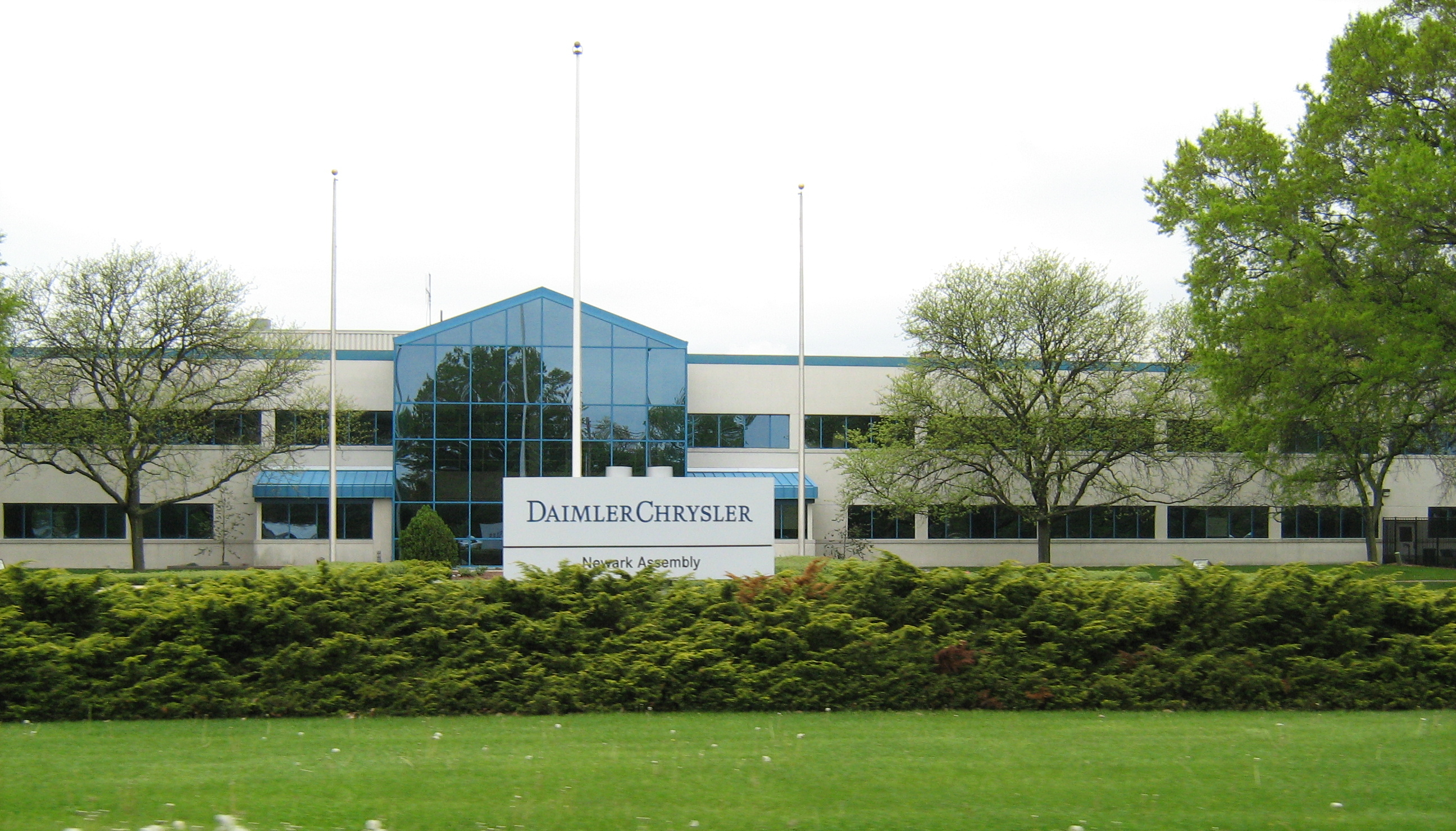 DaimlerChrysler - Newark Assembly Plant, Main Office Building in Delaware (closed)